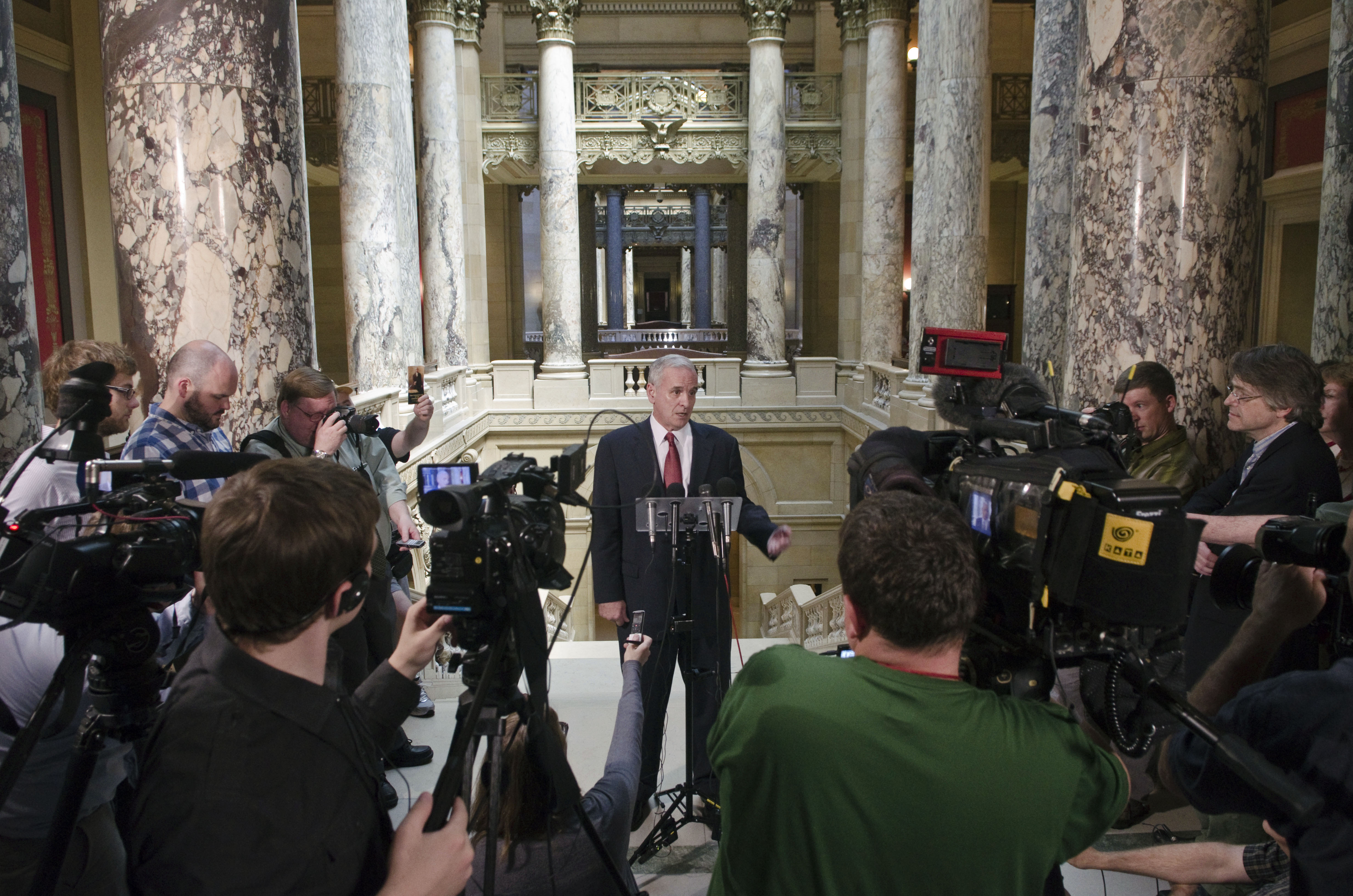 Minnesota Governor Dayton addresses the Capitol media during negotiations with the Republican leadership in the State Legislature to reach a budget agreement